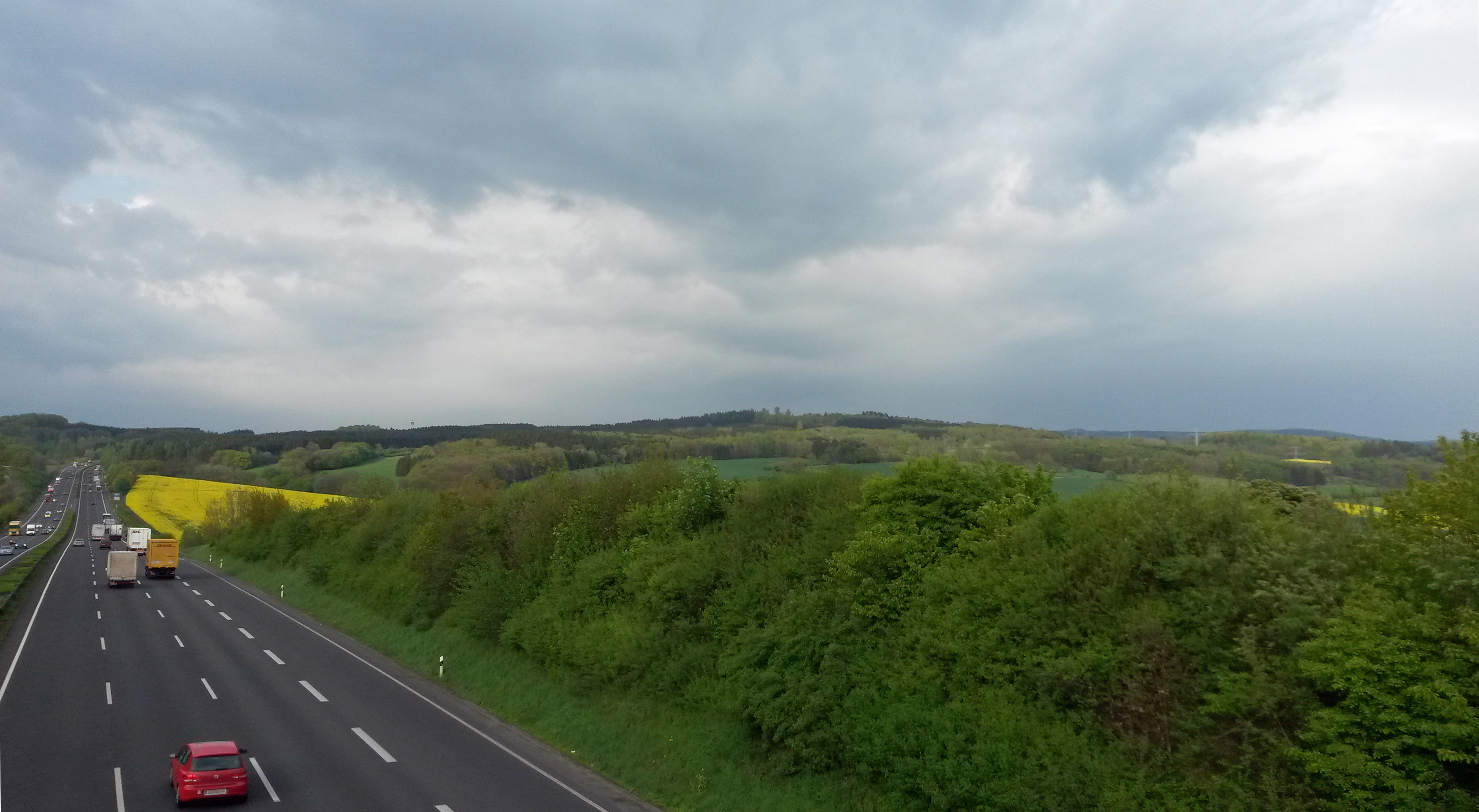 Grosser Staufenberg, Naturpark Muenden, Lower Saxony, Germany